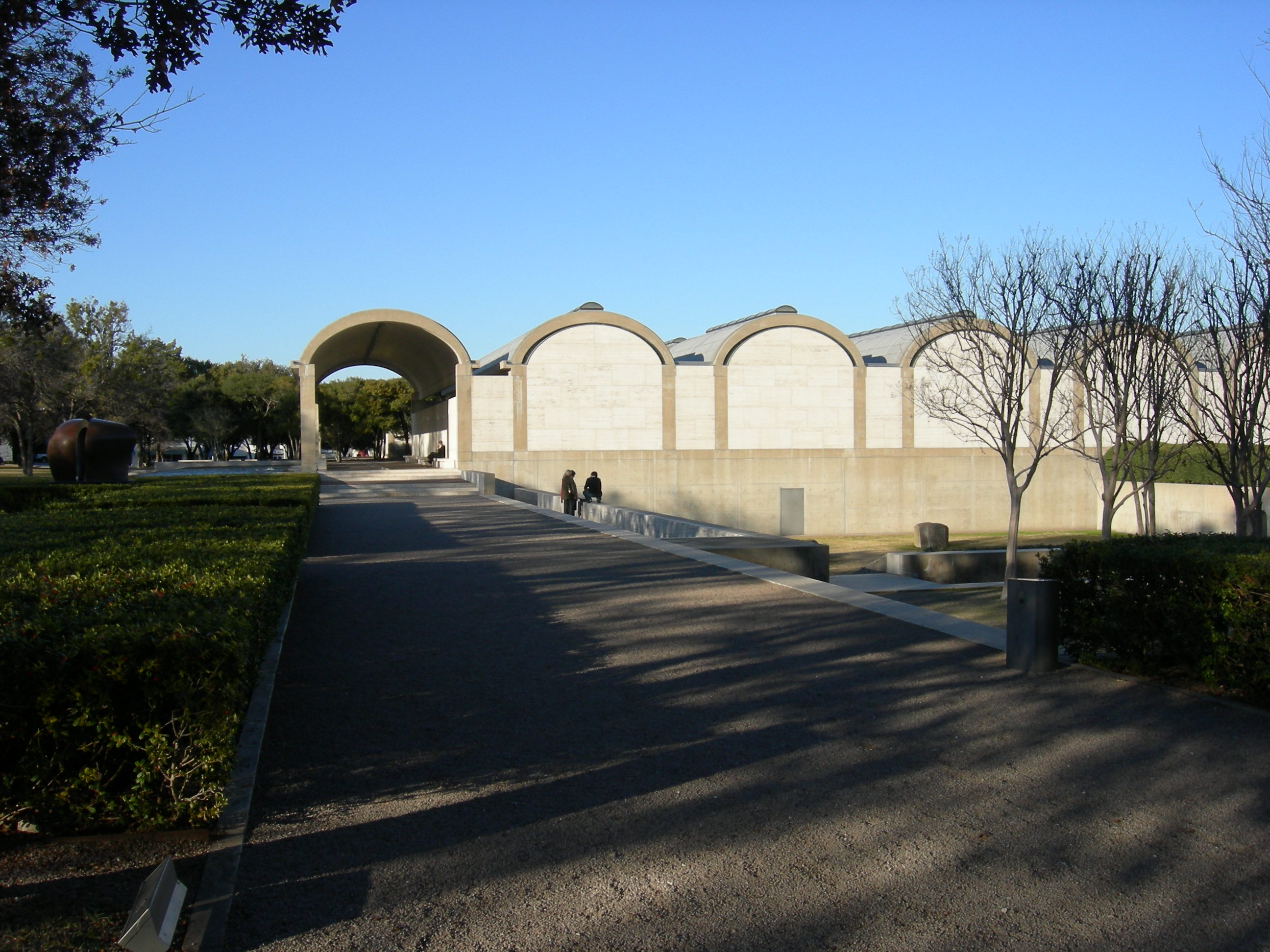 Kimbell Art Museum, Fort Worth, Texas.